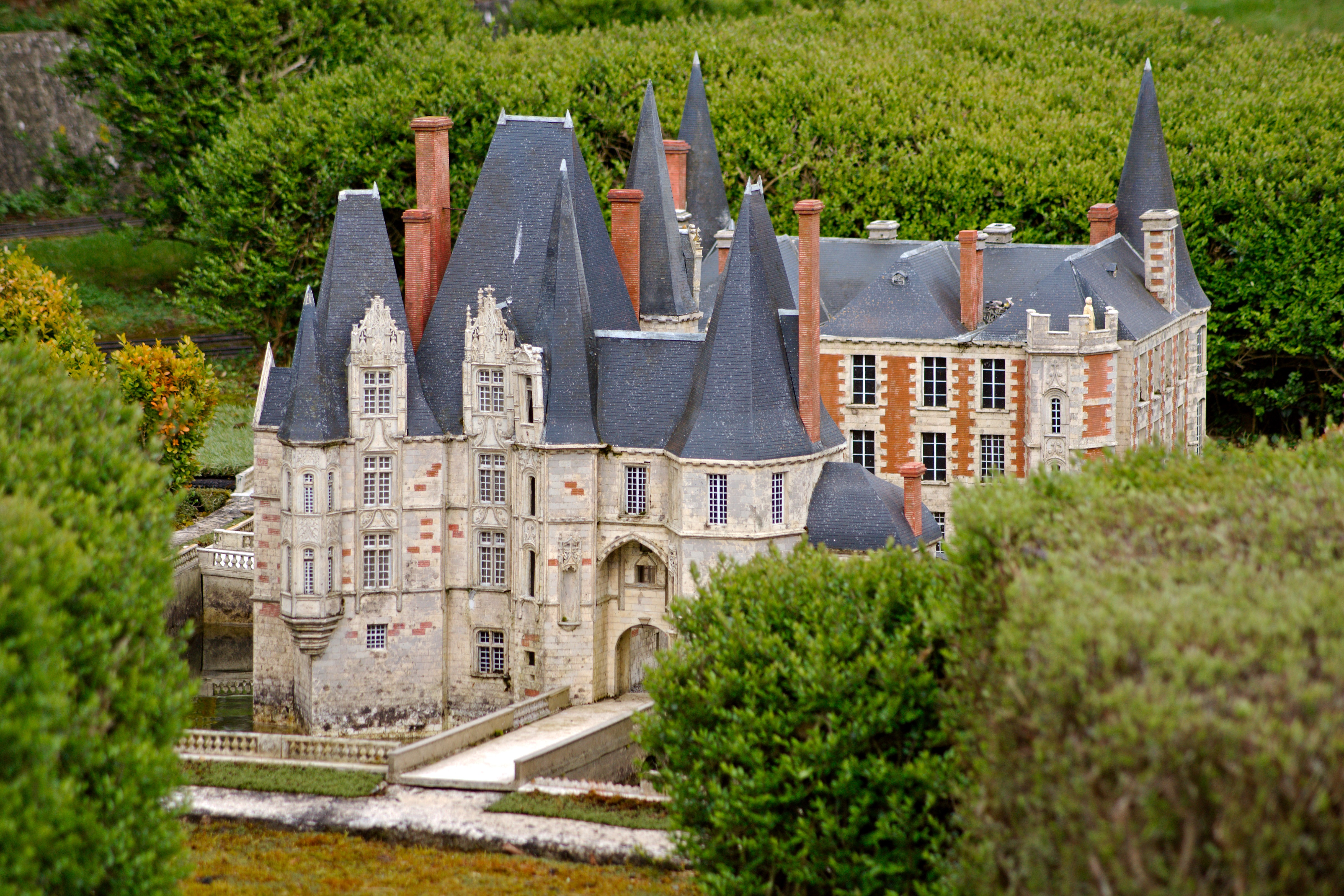 France Miniature, a miniature park tourist attraction in Élancourt, France.